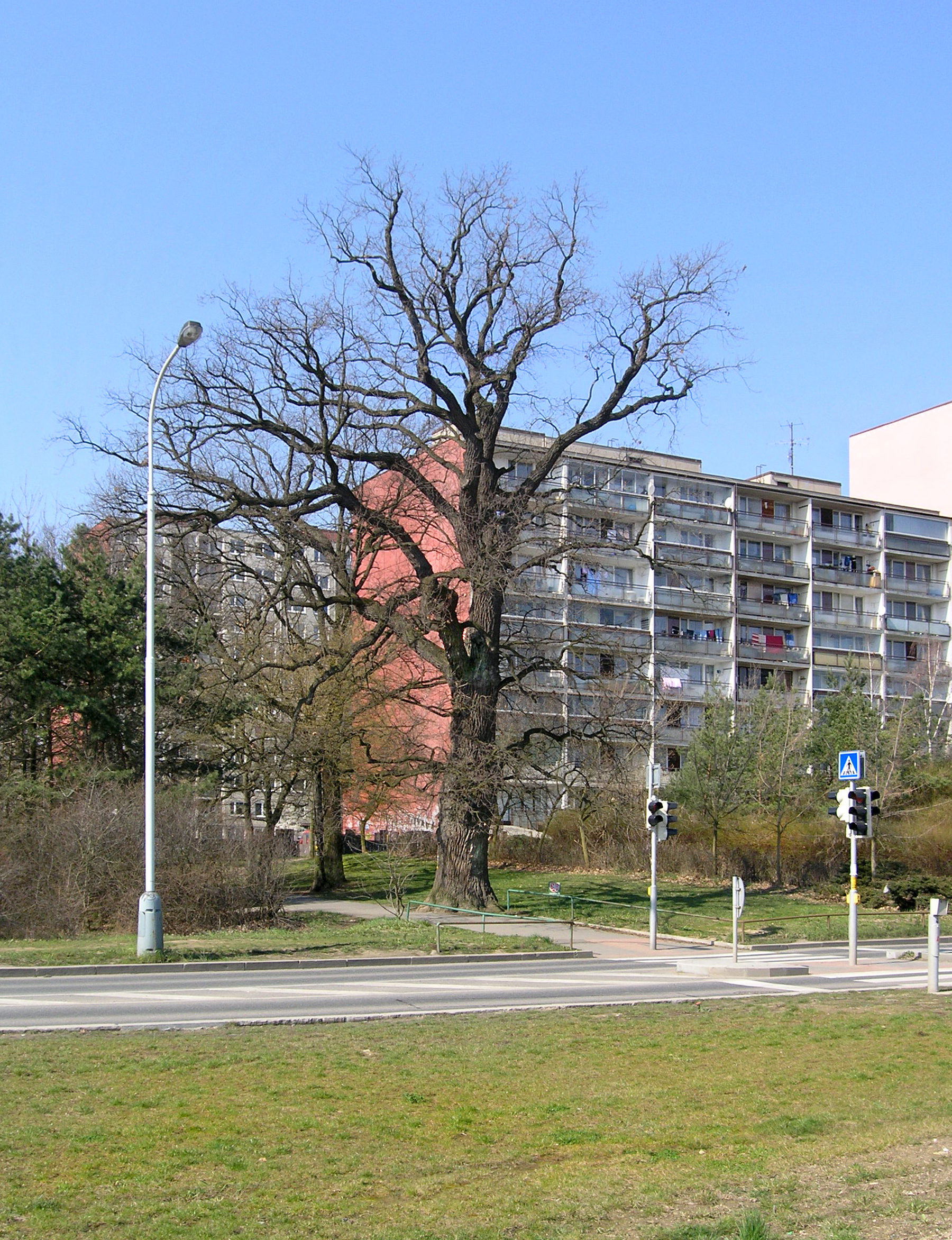 Protected oak in Kunratický forest near Jižní Město II housing estate, Prague